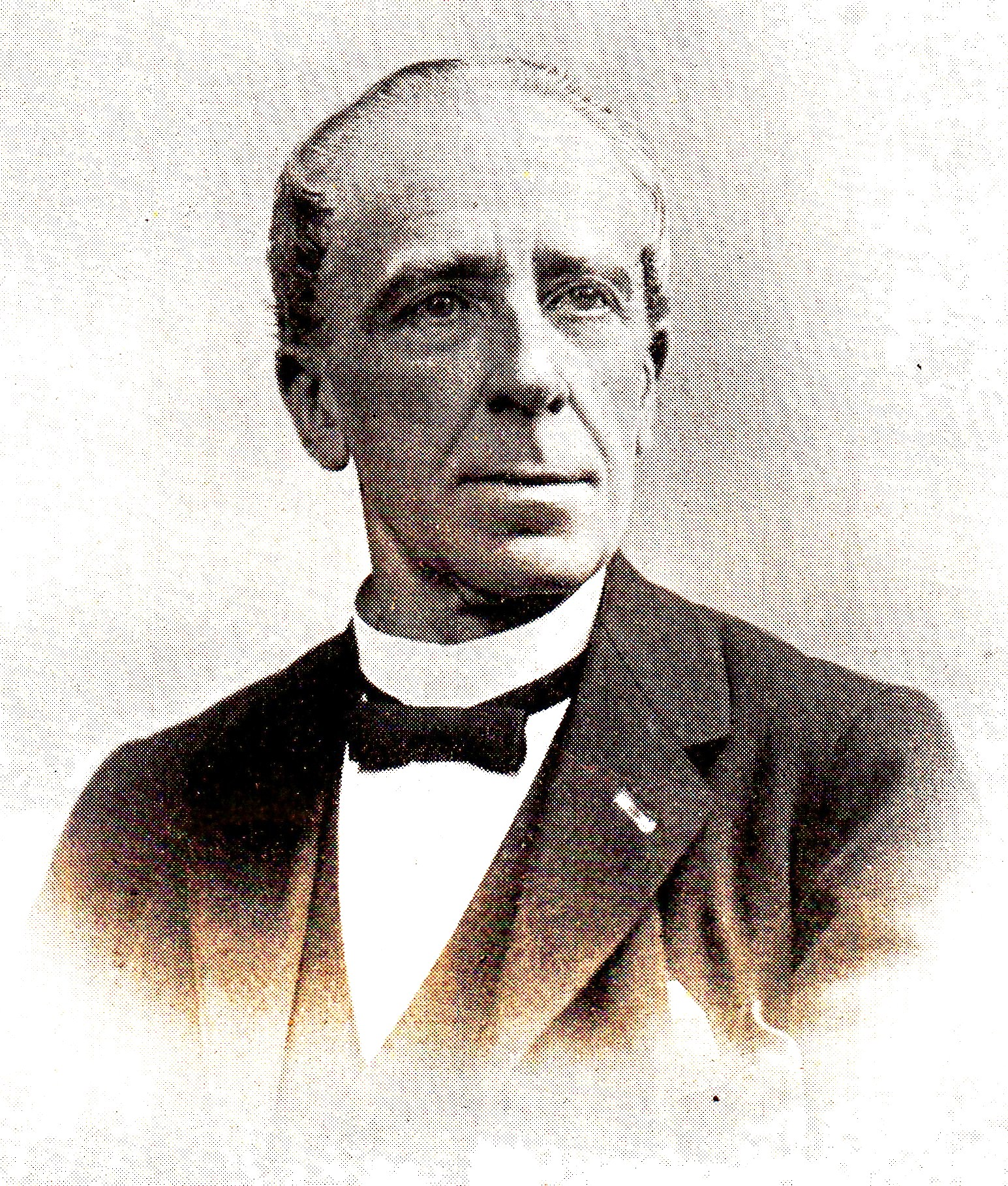 Rosier Faasen